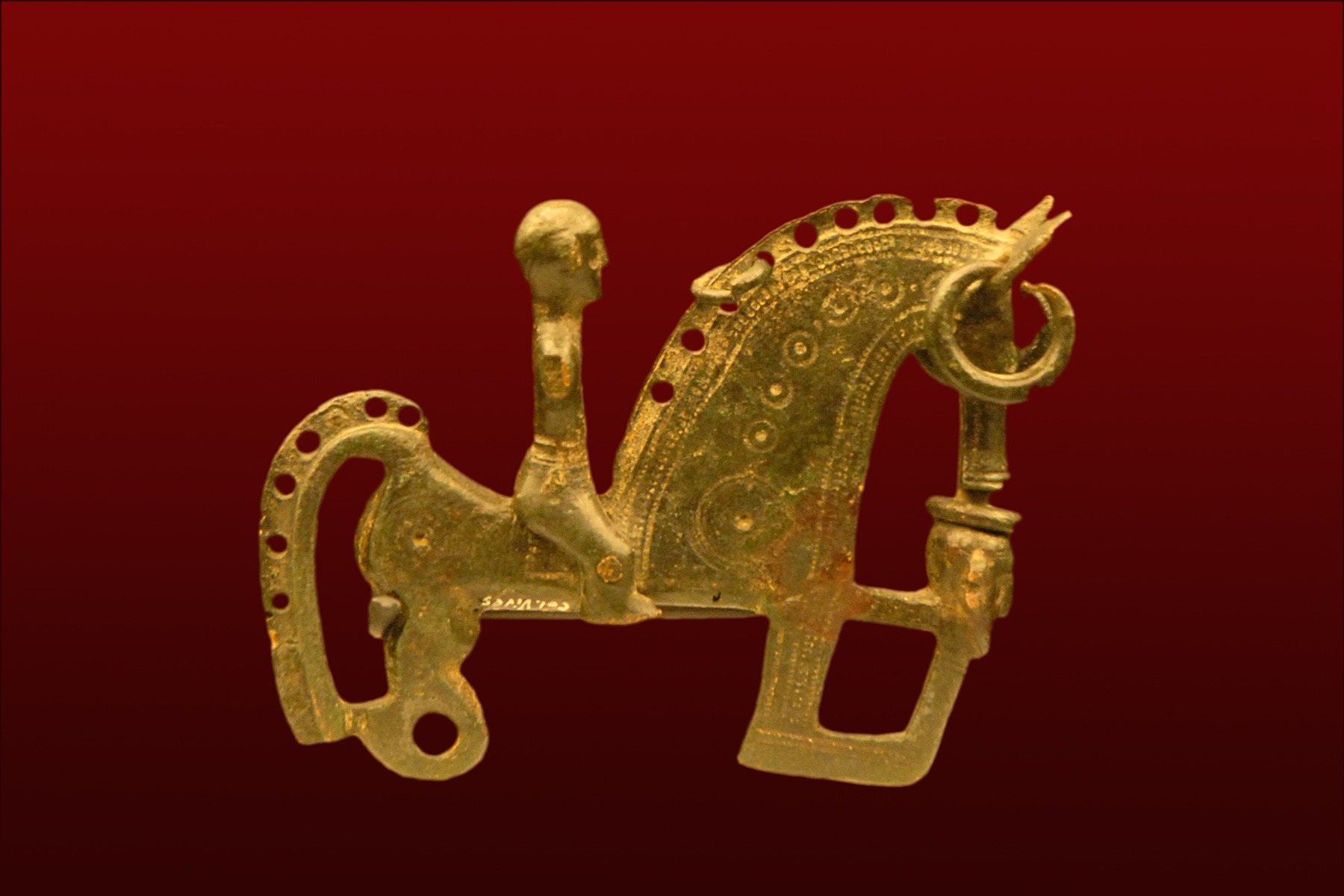 A replica of a Celtiberian fibula representing a rider. Under the horse's head, there is a cut human head, maybe from a defeated enemy. This kind of fibulae are considered to be an emblem of elite warriors.